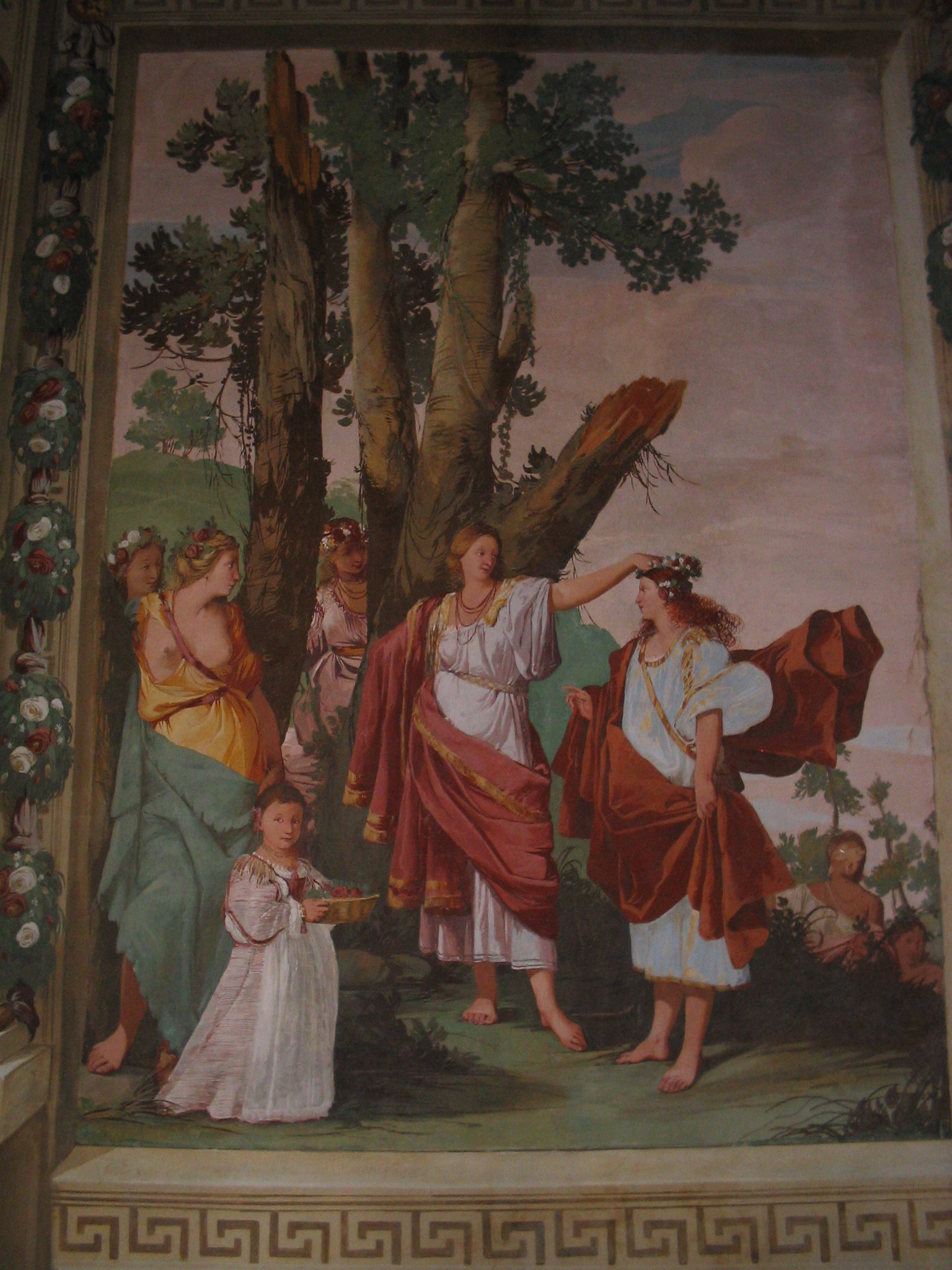 Villa Caldogno (Caldogno, Province of Vicenza). Frescos of a left wing room by Giulio Carpioni (Venice, 1613 - Vicenza, 1679).